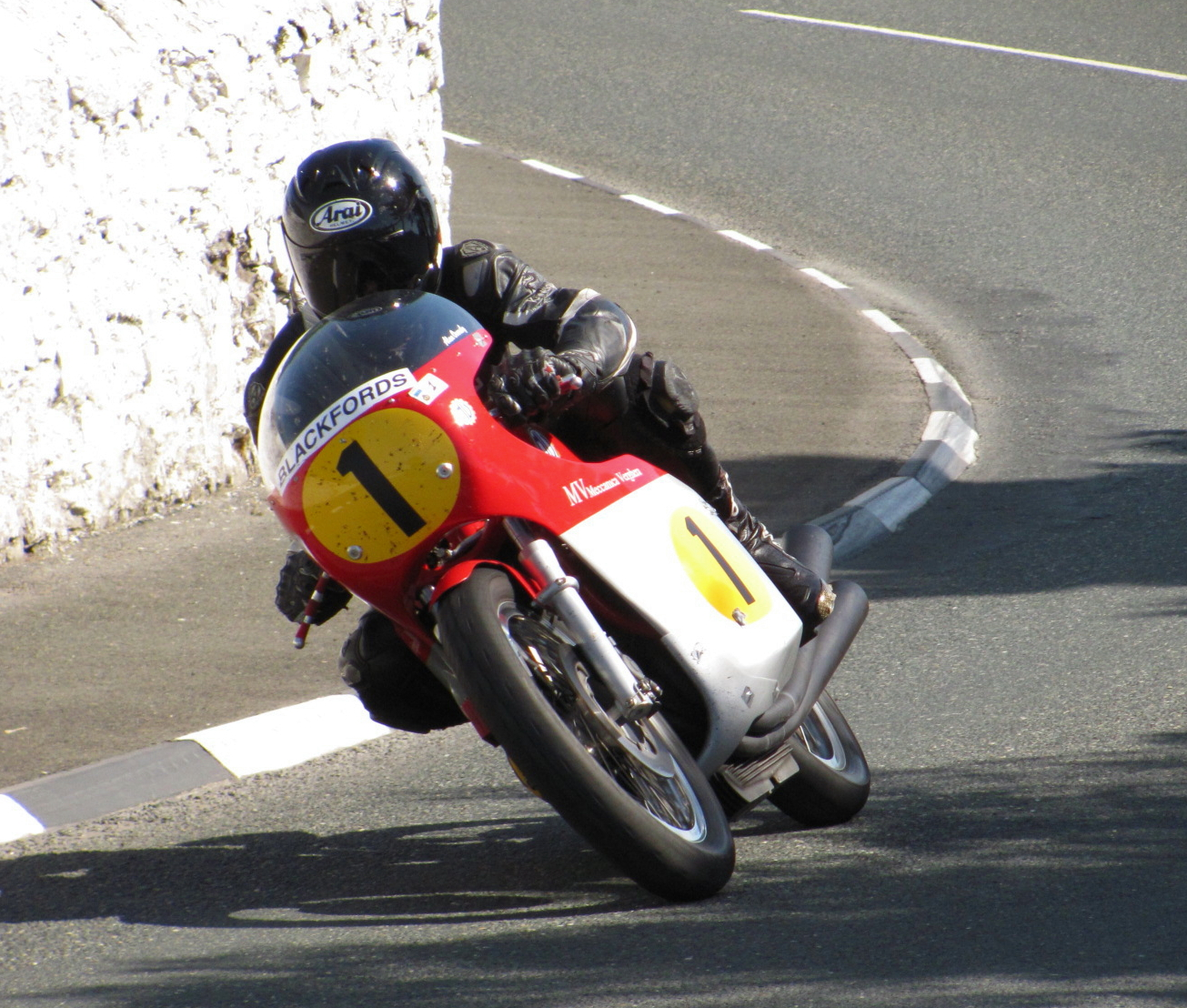 Pre-TT Classic